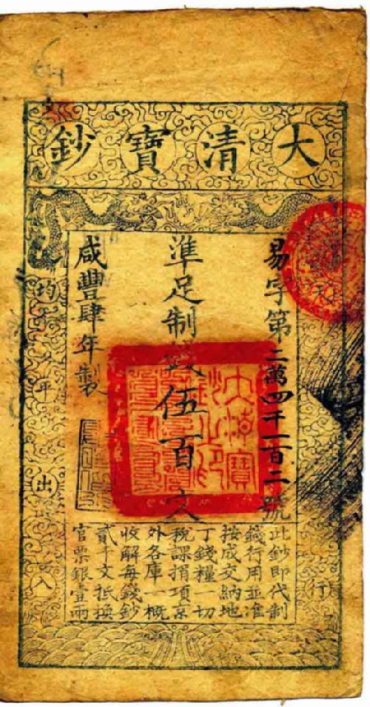 A banknote issued by the government of the Manchu Qing Dynasty during the Xianfeng Era.